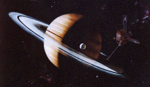 Artist's Concept of Saturn Encounter